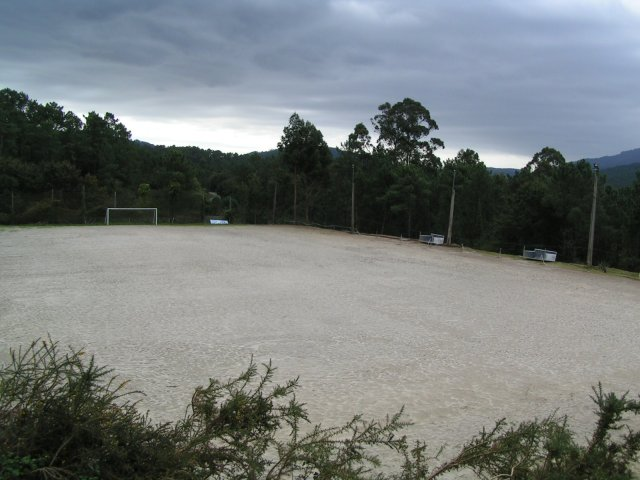 campo de futbol de Cruido